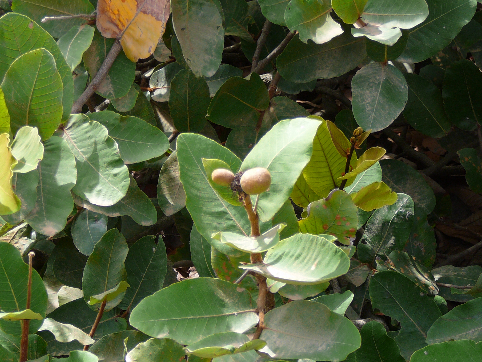 Neocarya macrophylla